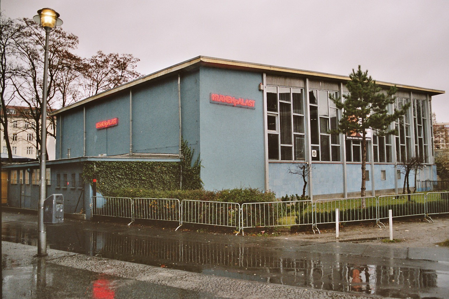 Part of the former frontier between West- and East-Berlin at Railwaystation “Friedrichstrasse”. "Tränenpalast" means "tears palace". After the revolution of 1989 and German reunification, the building was used as an event hall for concerts, parties, etc. In July 2006, the Palace of Tears was closed and then renovated. Here, the building was restored to the original state of 1962. Since September 2011, the former check-in hall of the border crossing point is used by the Bonn Haus der Geschichte der Bundesrepublik Deutschland as a branch office. With free entry there will be the permanent exhibition "GrenzErfahrungen. Everyday life of the German division" shown there.